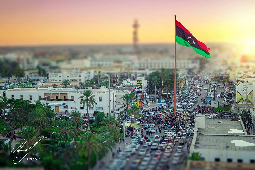 Misrata Downtown Square, Photo by MJ